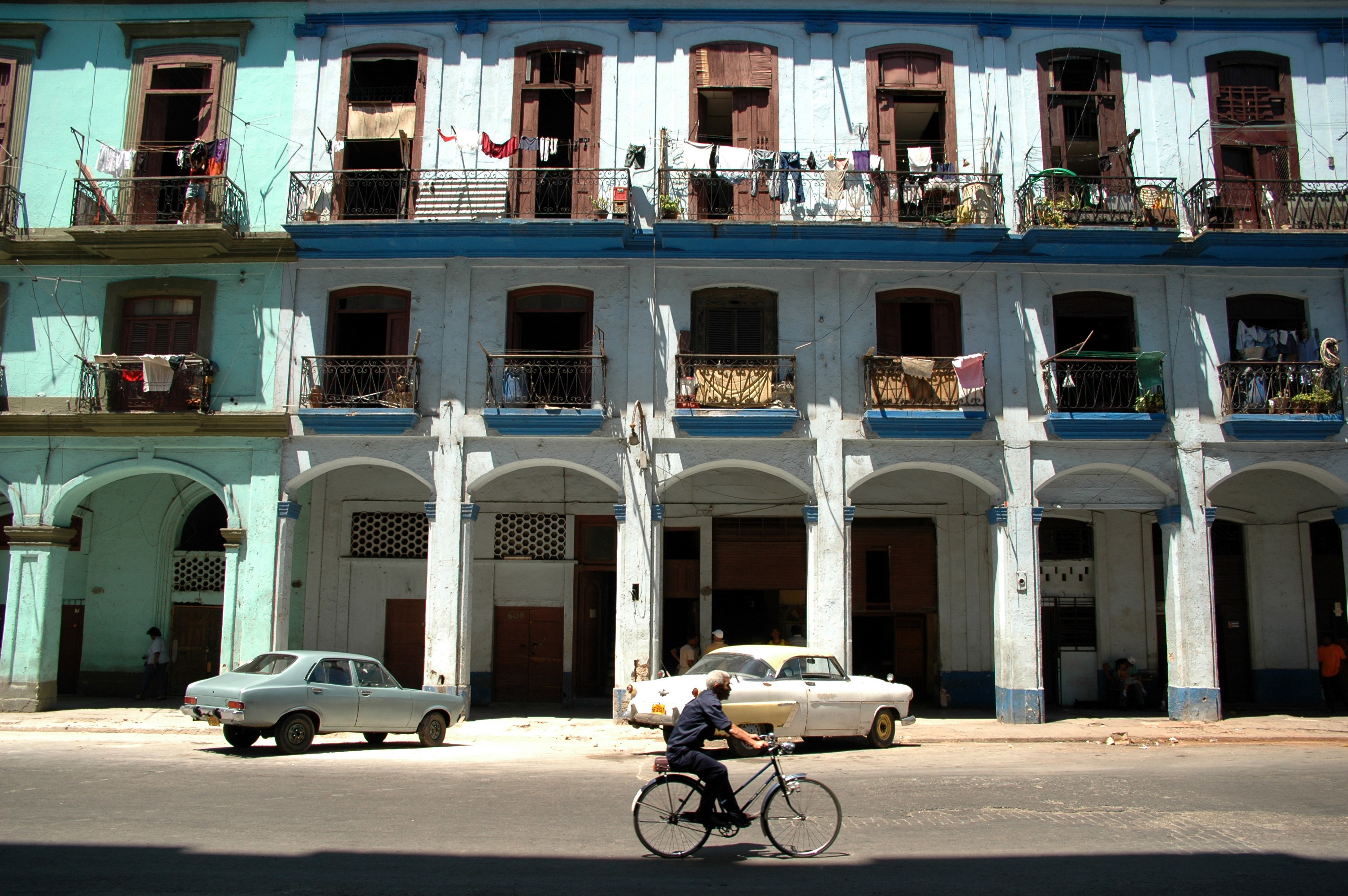 Cuba, Havana, houses in Calle Brasil